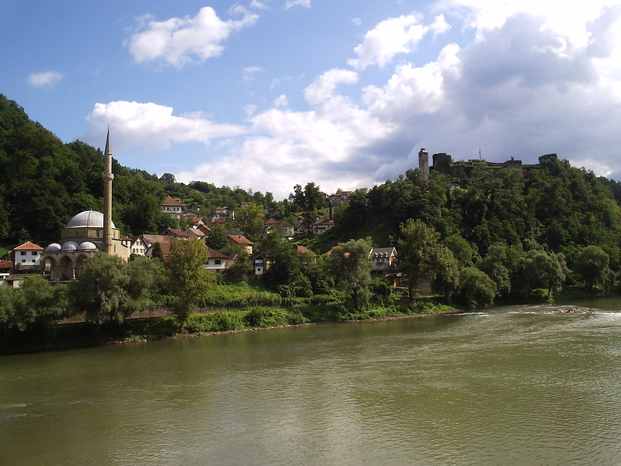 Slika starog dijela grada- Maglaj